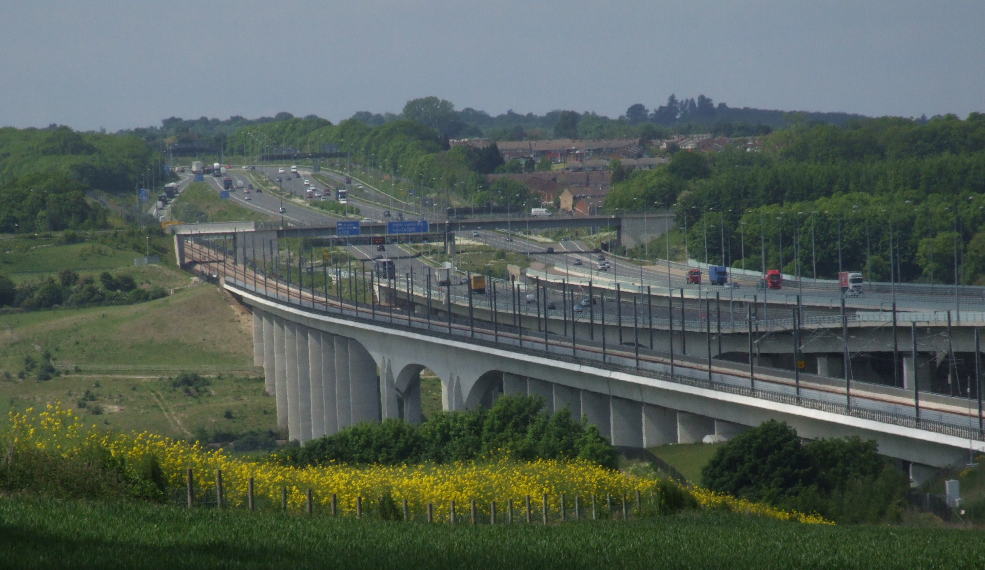 The Medway viaducts, Kent, England in May 2008. They consist of three bridges that cross the River Medway from south east to north west. One carries a footpath/cycle way and the east bound carriage of the M2 motorway, the second carries the west bound carriageway and the third carries the Channel Tunnel Rail Link (HS1). A view from the side of the Nashenden Valley, near Shoulder of Mutton Wood. We see all three bridges, and the motoway exit onto the A228.